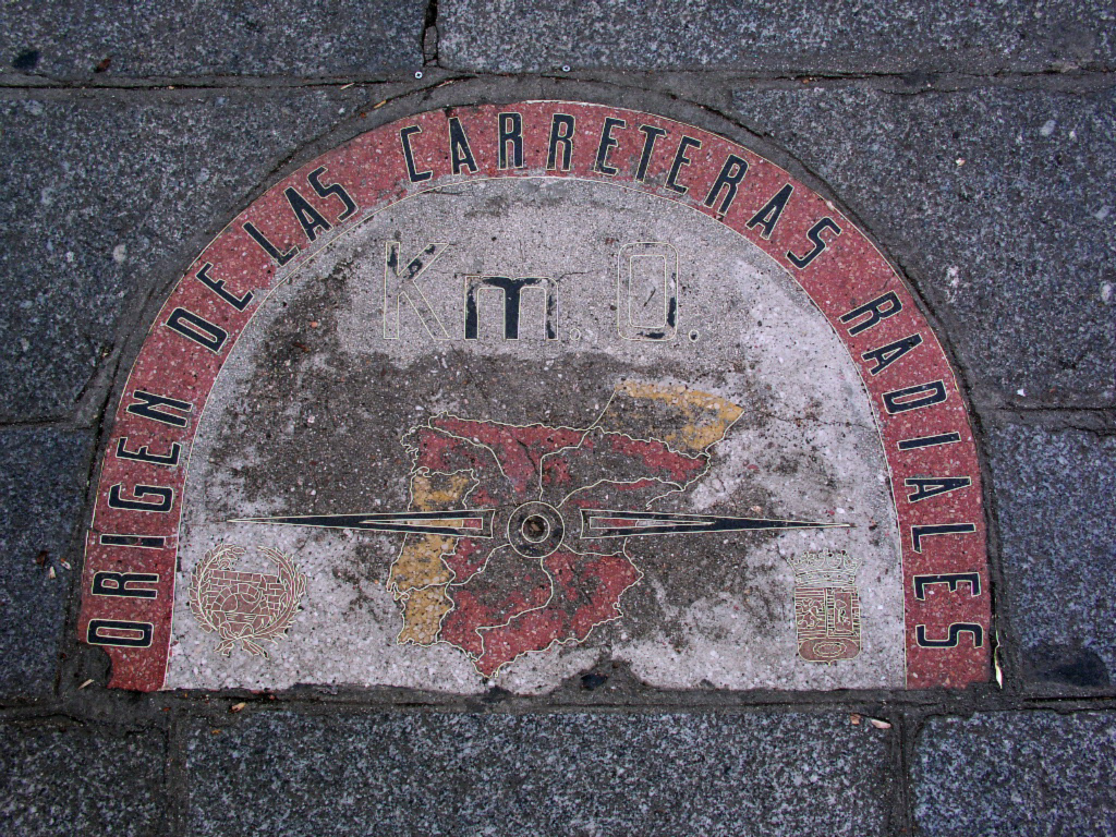 Kilometer zero in Puerta del Sol, Madrid, Spain. The photo was taken the 21 of December 2003 by Håkan Svensson (Xauxa). New uploading on same name; same picture as before, but contrast has been increased, somewhat softened, licenced extended.